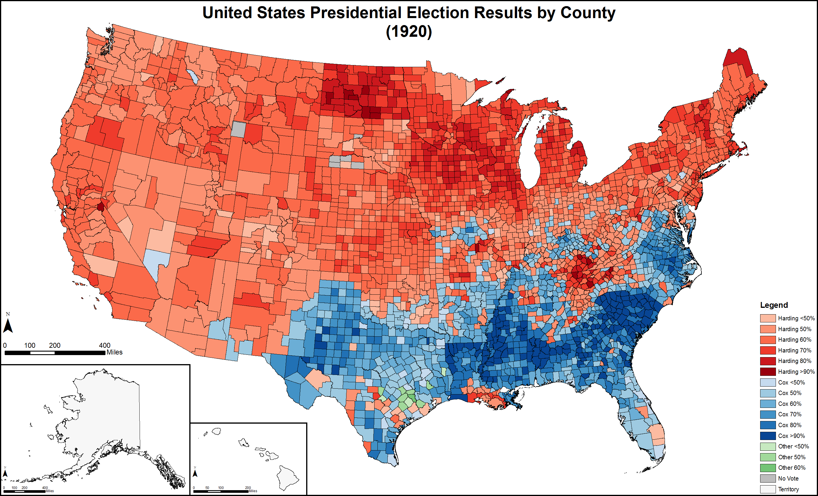 Presidential election results by county (1920). Colors based on Colorbrewer 2.0.